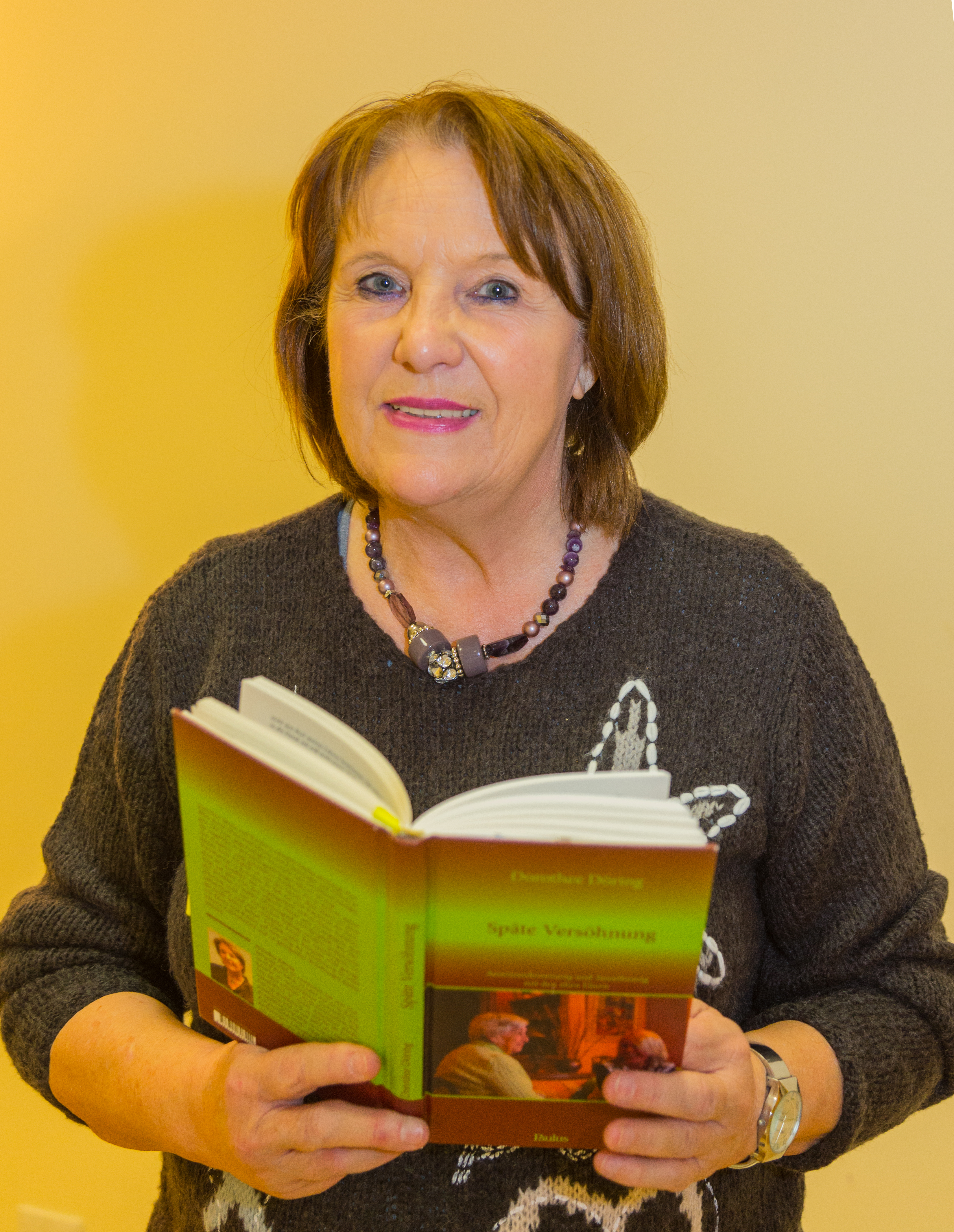 German writer and conflict advisor Dorothee Döring at the Familienbildungsstätte in Ibbenbüren, Kreis Steinfurt, North Rhine-Westphalia, Germany. This evening Döring read from her book Späte Versöhnung. Auseinandersetzung und Aussöhnung mit den alten Eltern.